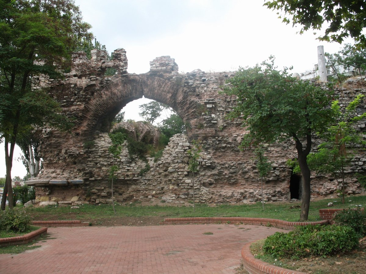 The Palace of Bucoleon.